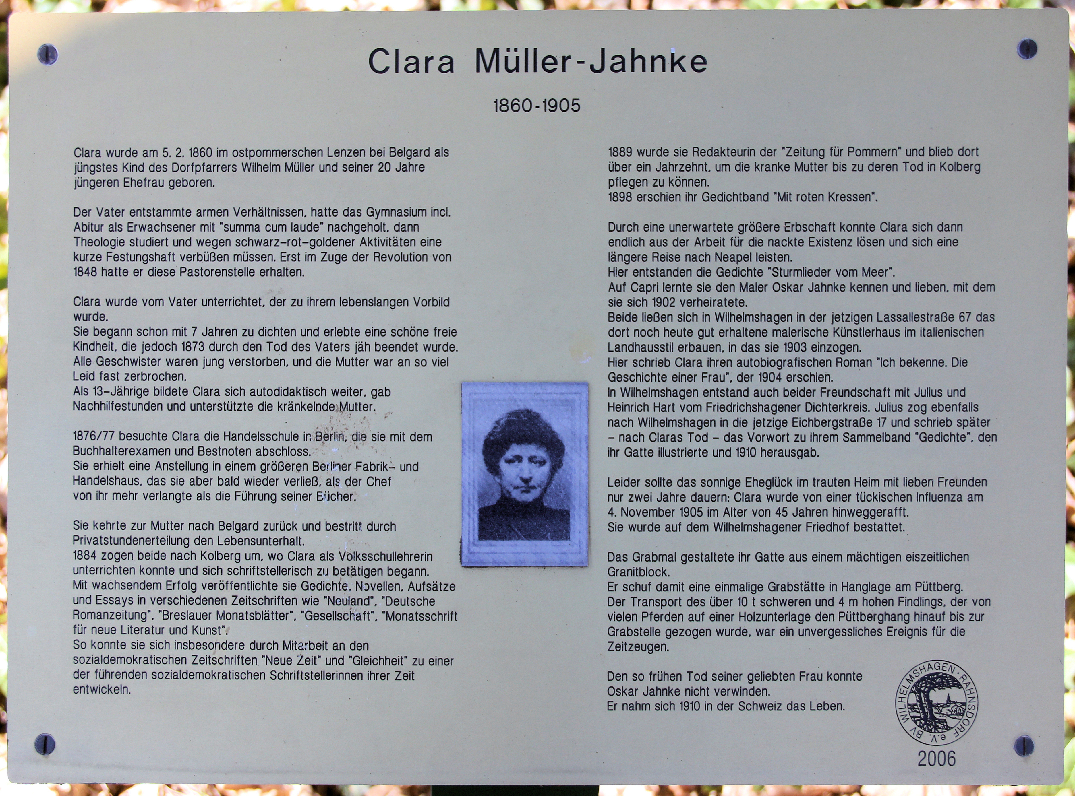 Memorial plaque, Clara Müller-Jahnke, Saarower Weg 51, Berlin-Wilhelmshagen, Germany